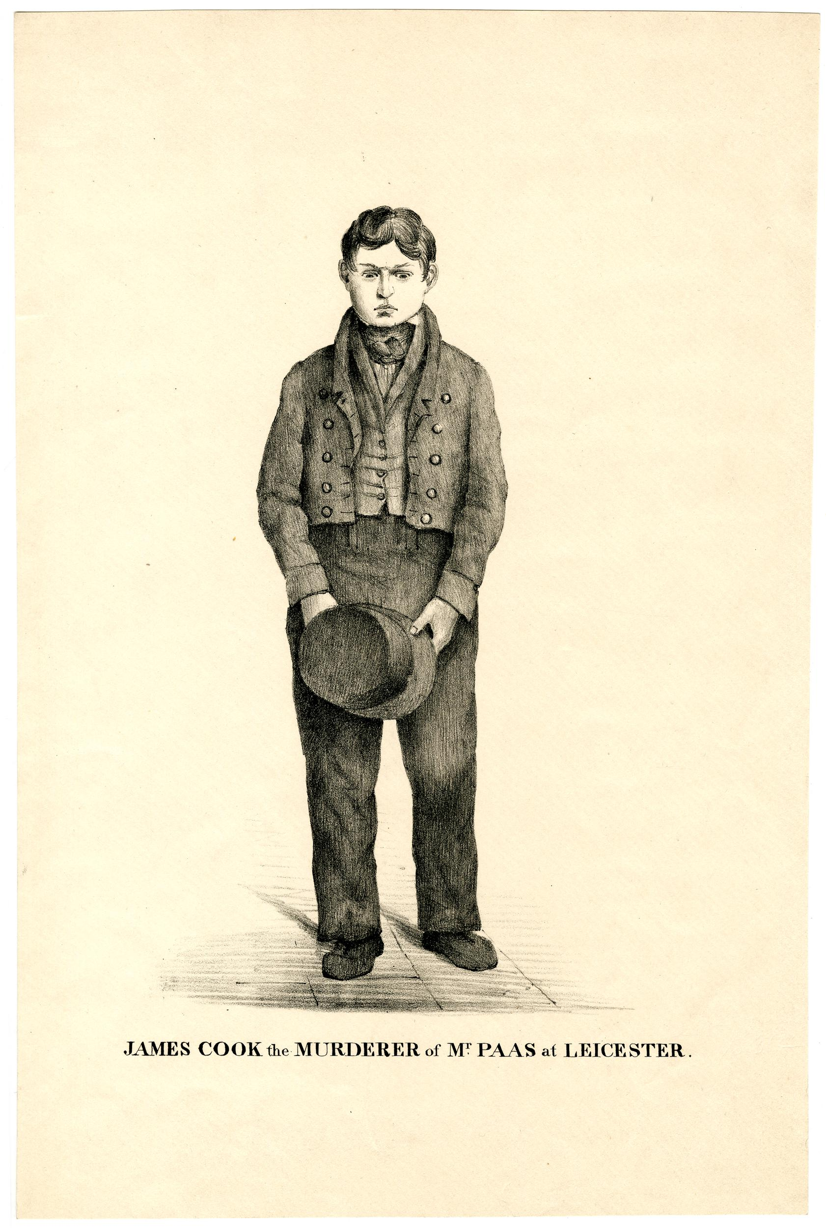 Portrait of James Cook, whole length, standing to front, looking down with a horrified expression, holding a hat with both hands, wearing short open double-breasted jacket, waistcoat and neckerchief tied in a bow. Lithograph